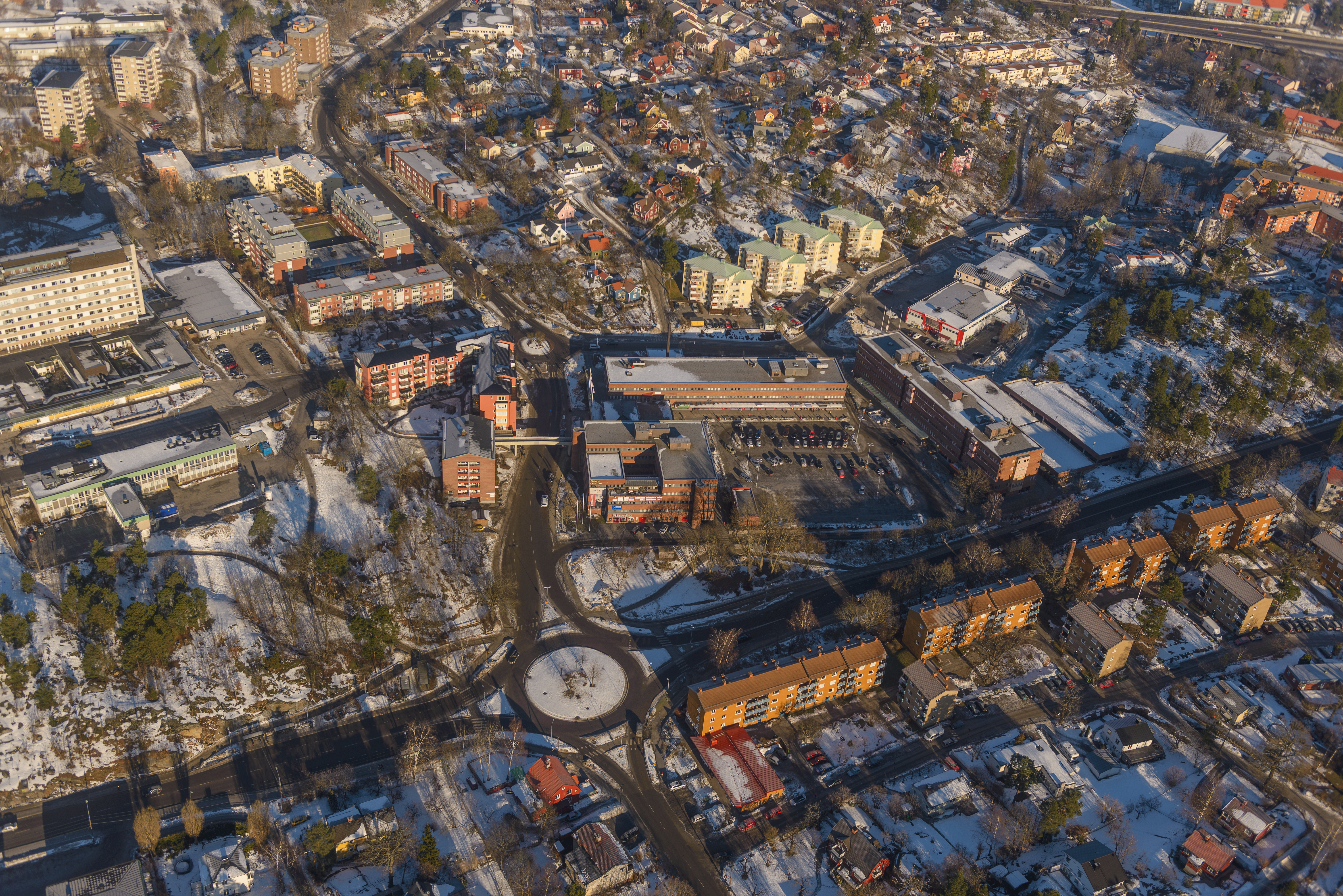 Ektorp Centrum, Nacka.